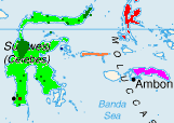 Distribution of the genus Rattus in Sulawesi and the Moluccas, based on CIA Factbook map. Green - Rattus hoffmanni (places where it has not yet been recorded are light green, places where it has already been recorded are dark green) Dark red - Rattus mollicomulus Light red - Rattus morotaiensis (the isle of Morotai, where it also occurs, was practically omitted from the map) Blue - Rattus koopmani Orange - Rattus elaphinus Pink - Rattus feliceus and Rattus ceramicus (also known as Stenomys ceramicus and Nesoromys ceramicus) The members of the Rattus xanthurus group on Sulawesi, which may eventually be excluded from Rattus, introduced Rattus species and undescribed species from Taliabu and Morotai were excluded from the map.